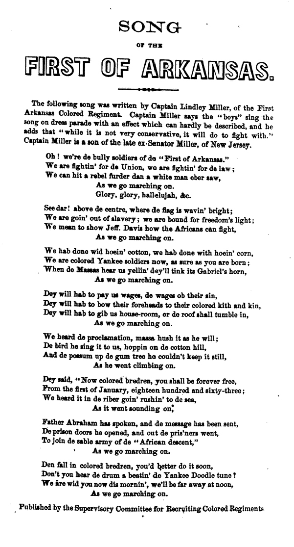 Song sheet or broadside of the Song of the First of Arkansas